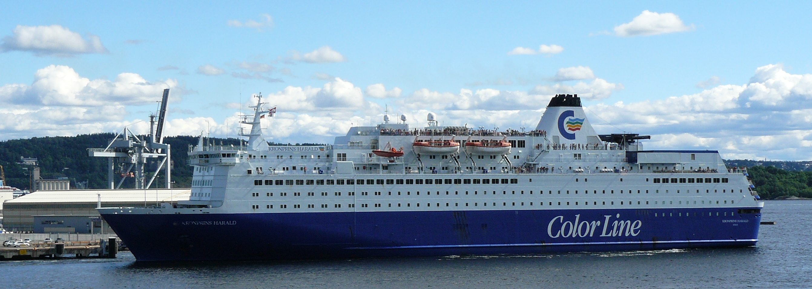 Color Line's MS Kronprins Harald